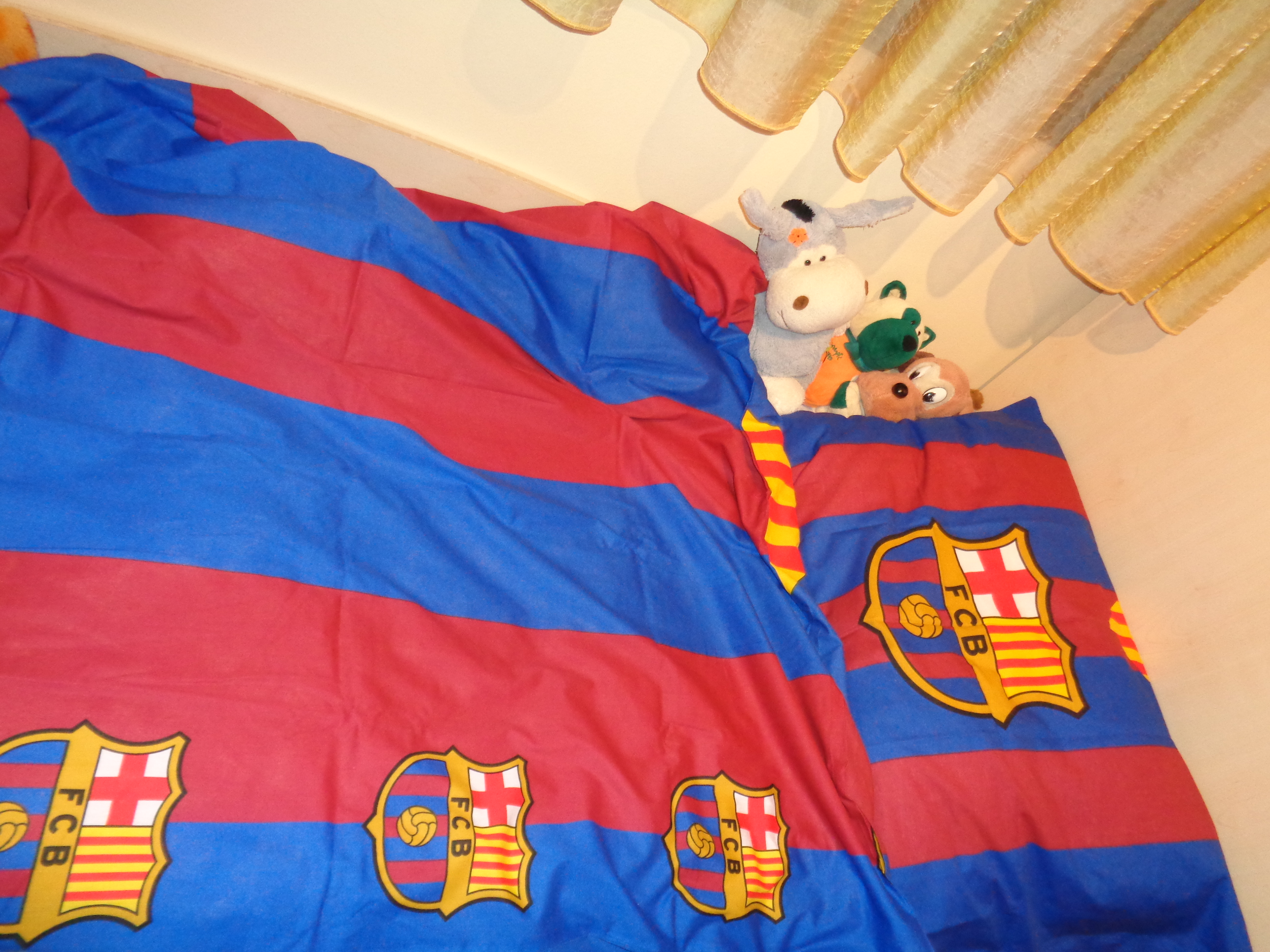 Bed of a young FC Barcelona fan.